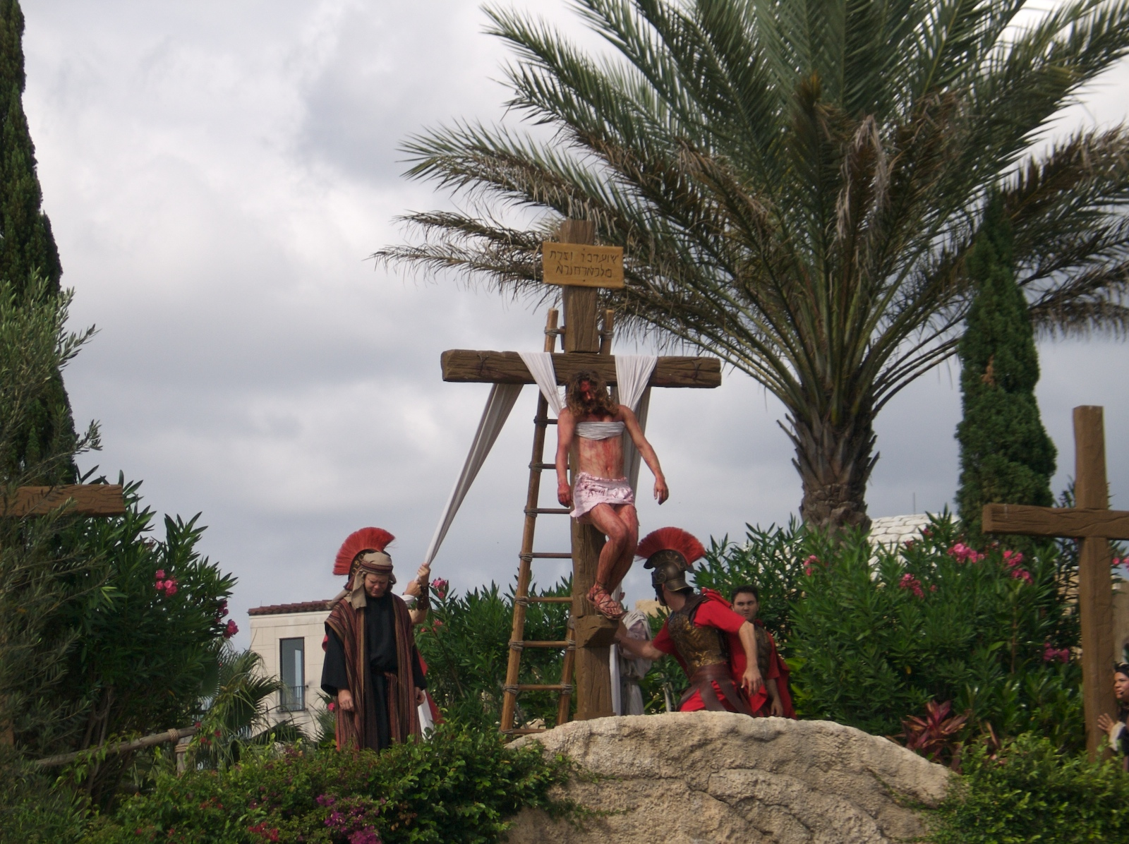 Daily re-enactment in the Holy Land Experience theme park